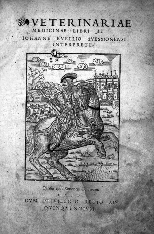 Title page with woodcut print: "Veterinariae medicinae", Libri II, Johannes Ruellius, Published by Simon Colinaeus, Paris 1530